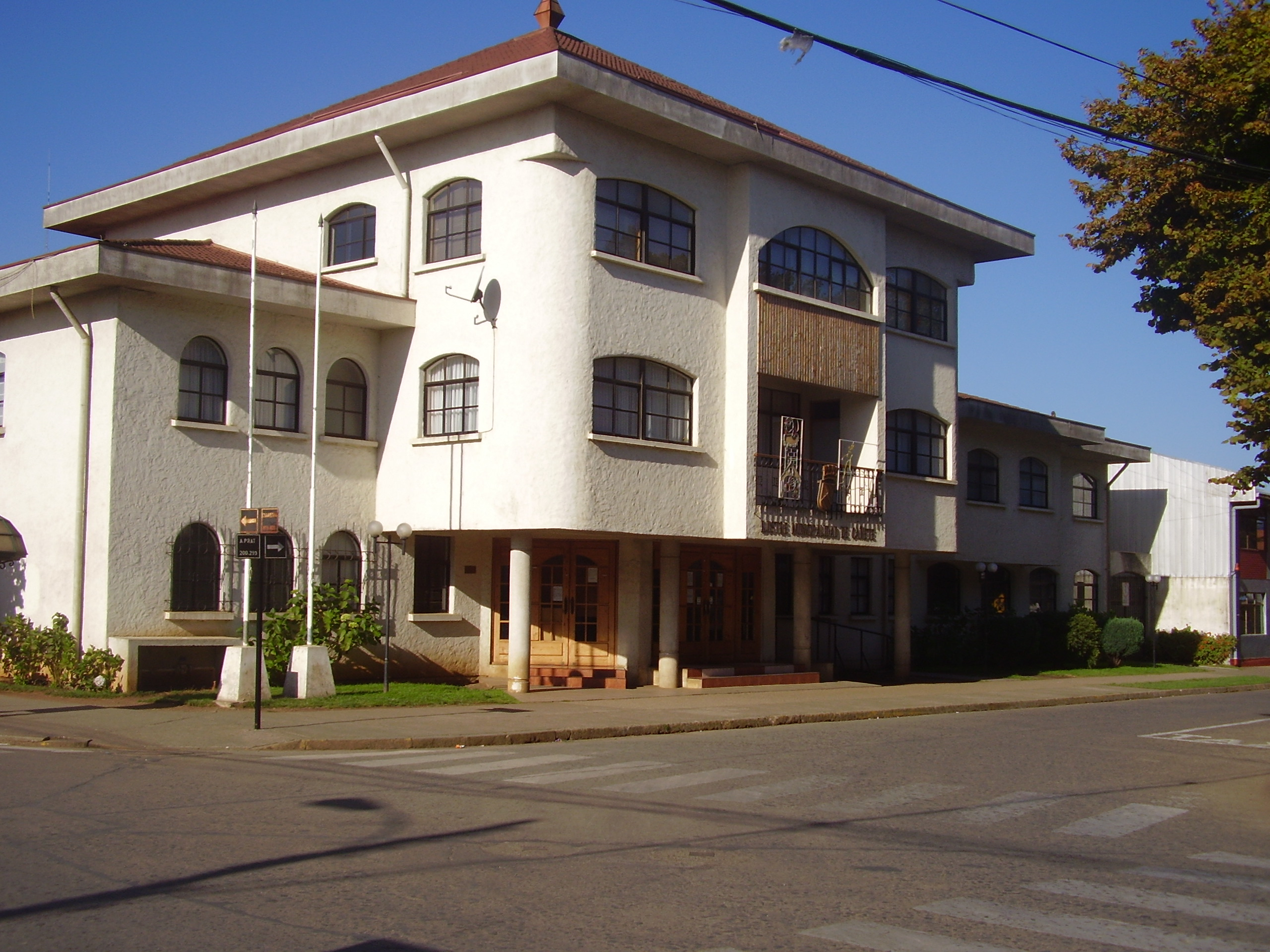 Photography of Municipality of Cañete, Chile